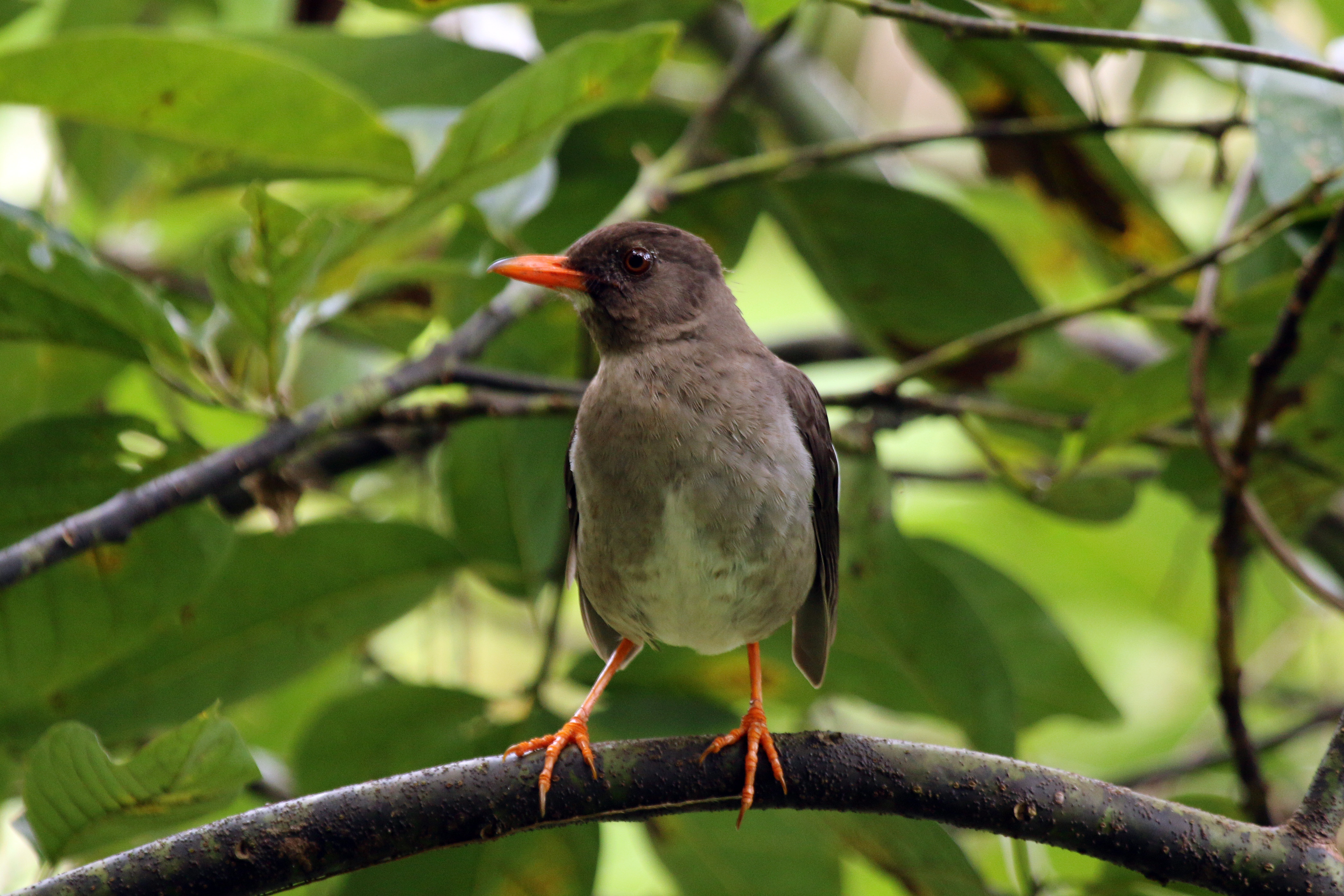 White-chinned thrush (Turdus aurantius), Jamaica